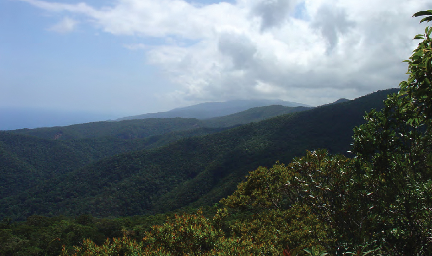 Ultrabasic forests above 1200 m at Barangay Diddadungan, Palanan, northern Isabela Province. Photo: MVW